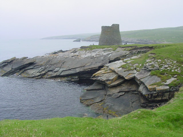 A misty day at Mousa Broch The best preserved example of a Scottish Broch on the Island of Mousa.